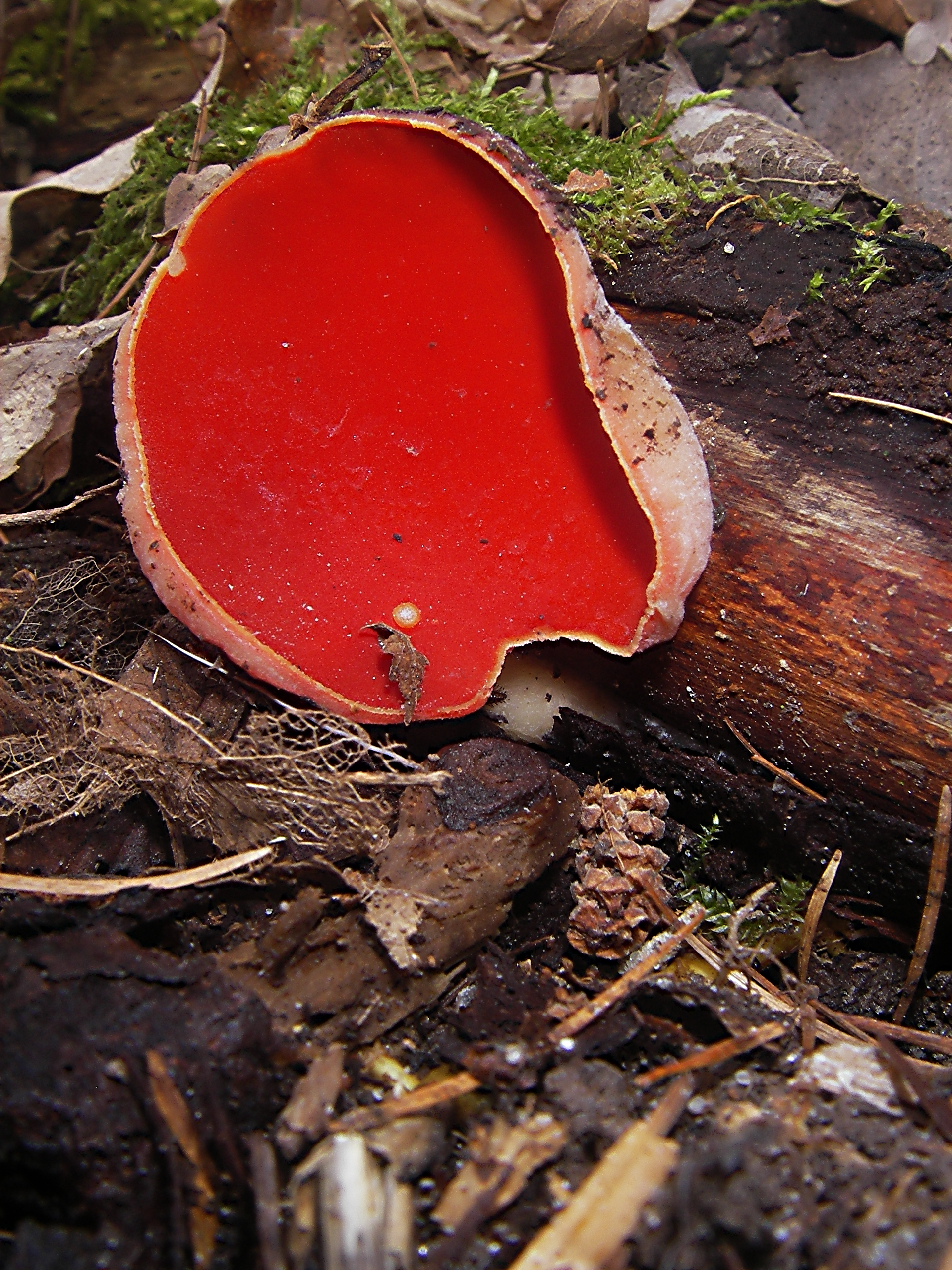 The making of this document was supported by the Community-Budget of Wikimedia Germany.